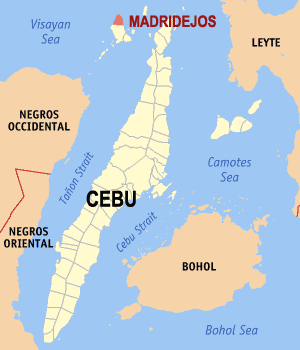 Map of Cebu showing the location of Madridejos